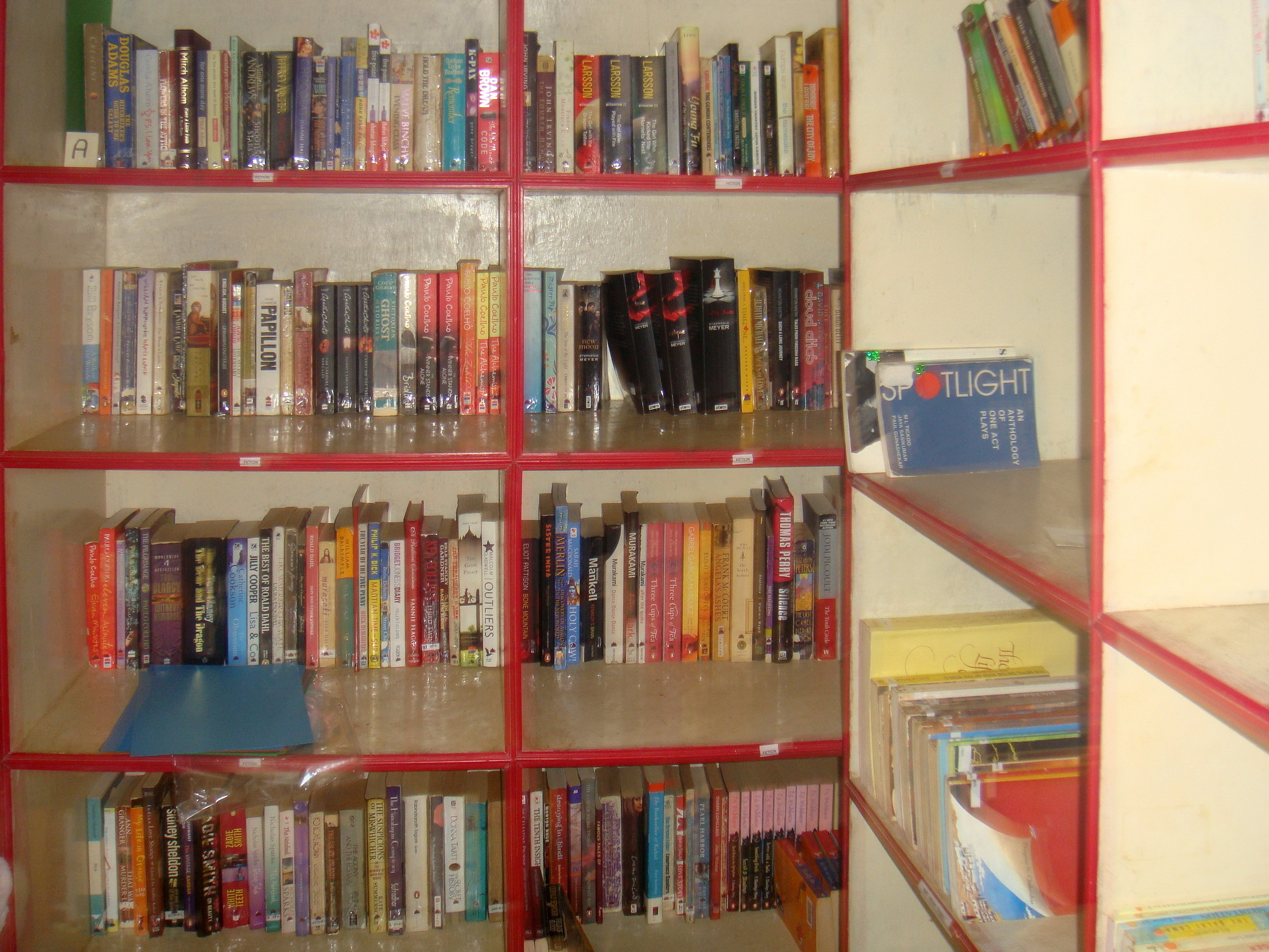 Kunpan Cultural School (ES Tibet foundation) in Dharamsala, Himachal Pradesh, India.